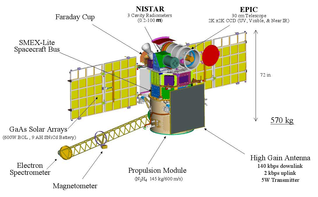 Diagram of the Deep Space Climate Observatory spacecraft.